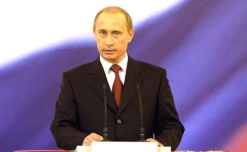 Vladimir Putin presidential inauguration 2004